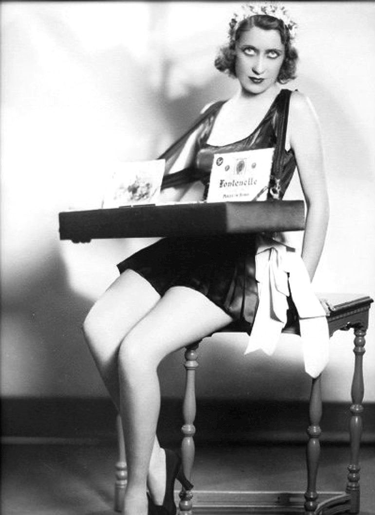 Photo of Ruth Etting in the Ziegfeld Follies of 1931. Note the uploaded photo is of better quality than the newsprint one. A renewal search was done in publications for the years 1958 and 1959 for the title Radio Digest. There were no listings; there's no evidence of renewal for this magazine.